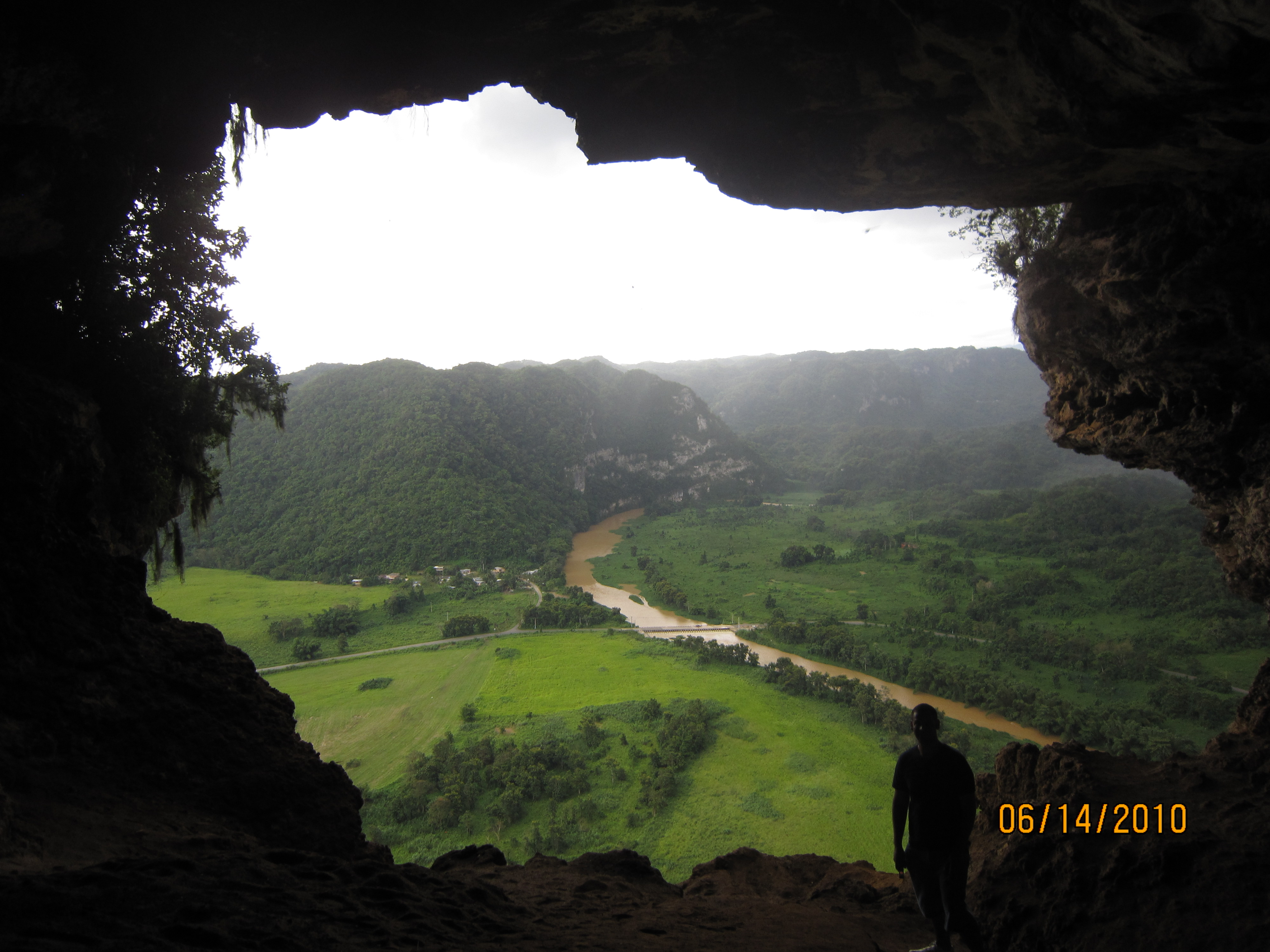 Looking out the opening of Cueva Ventana.